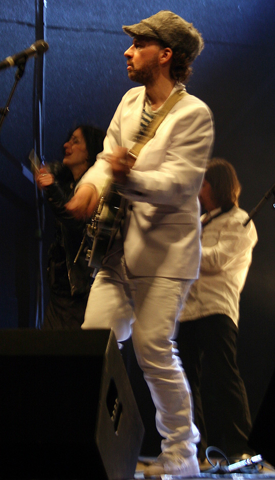 Shantel and the Bukovina Orkestar performing in the Prater in Vienna.